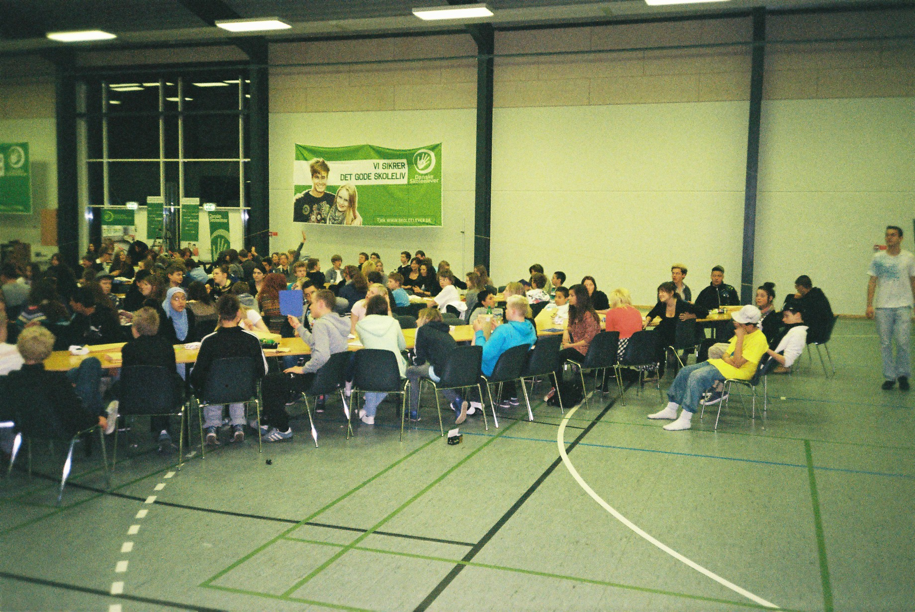 A view from Danske Skoleelever's (DSE) 'landskonfernce' 2010 held in Horsens.